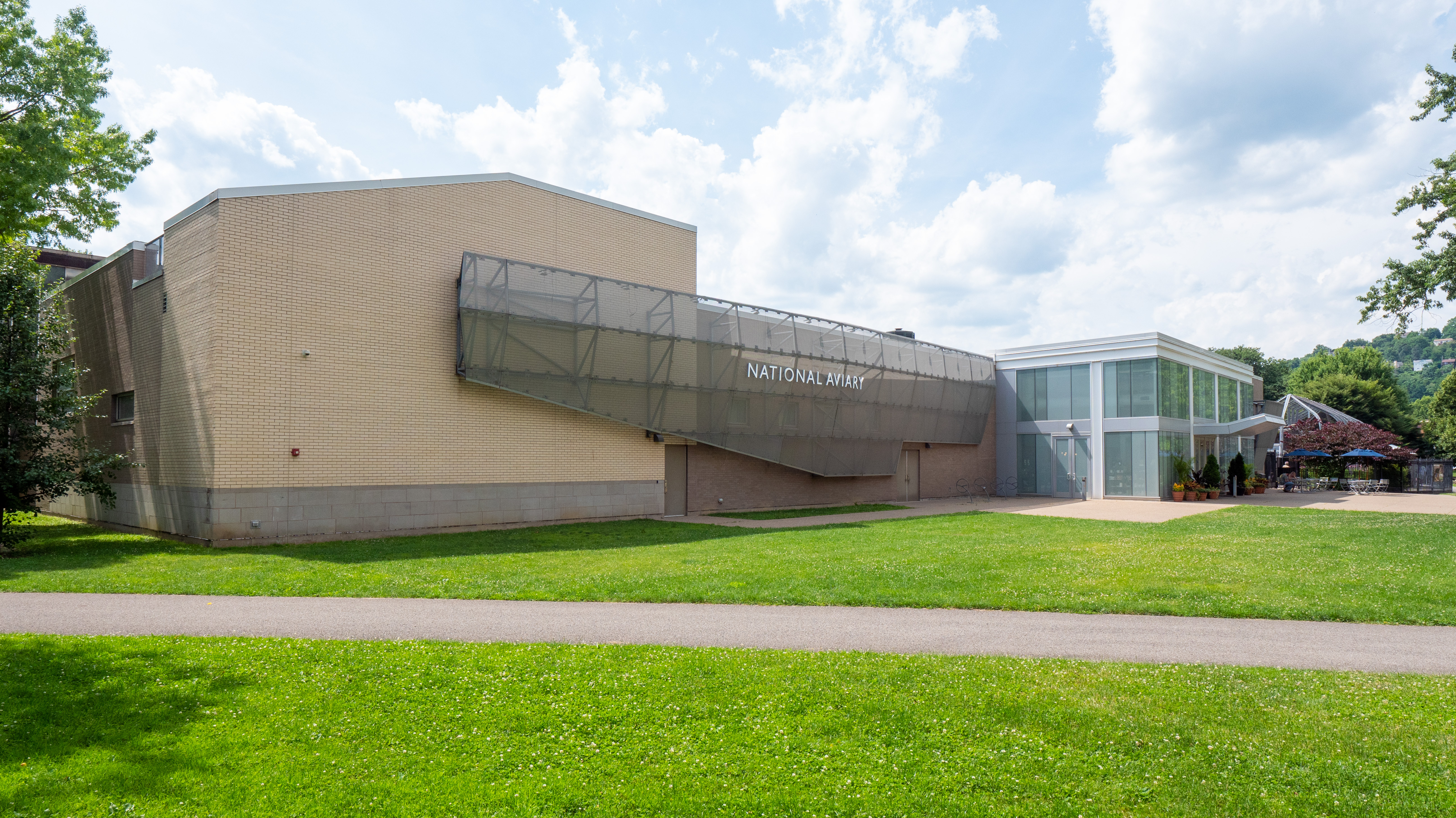 An exterior shot of the National Aviary located in Pittsburgh, Pennsylvania.